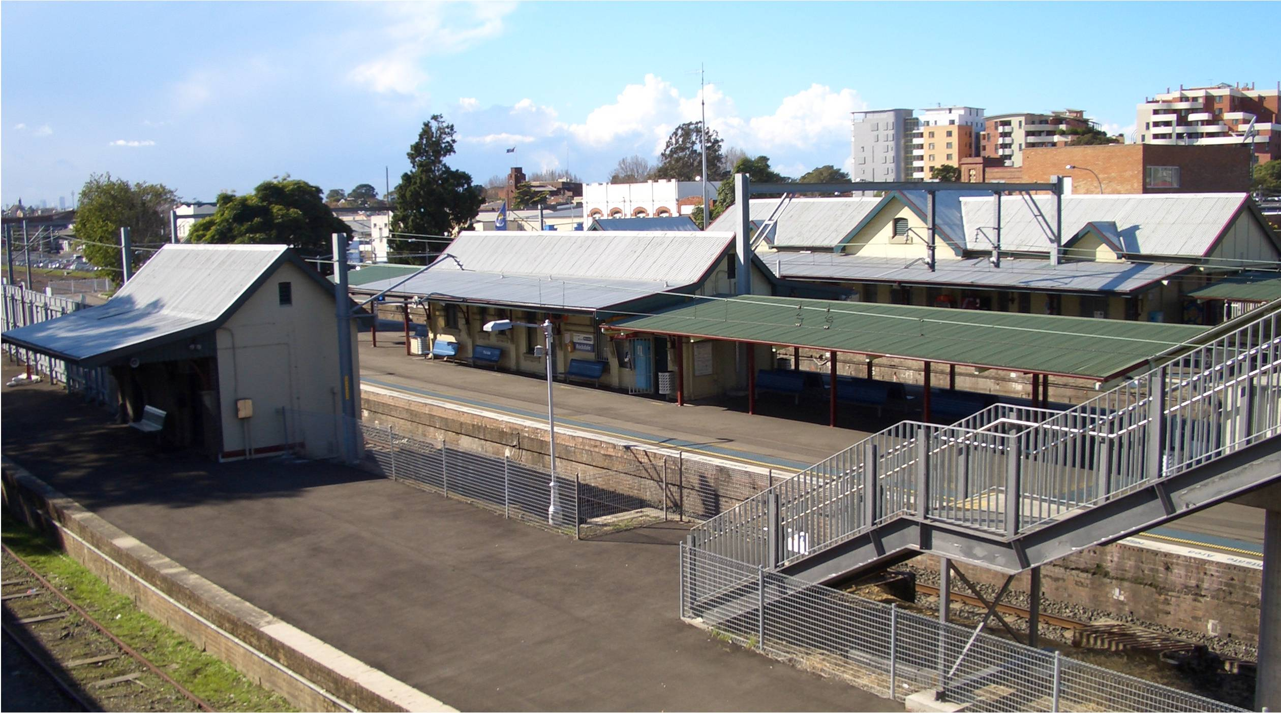 Rockdale railway station, Sydney